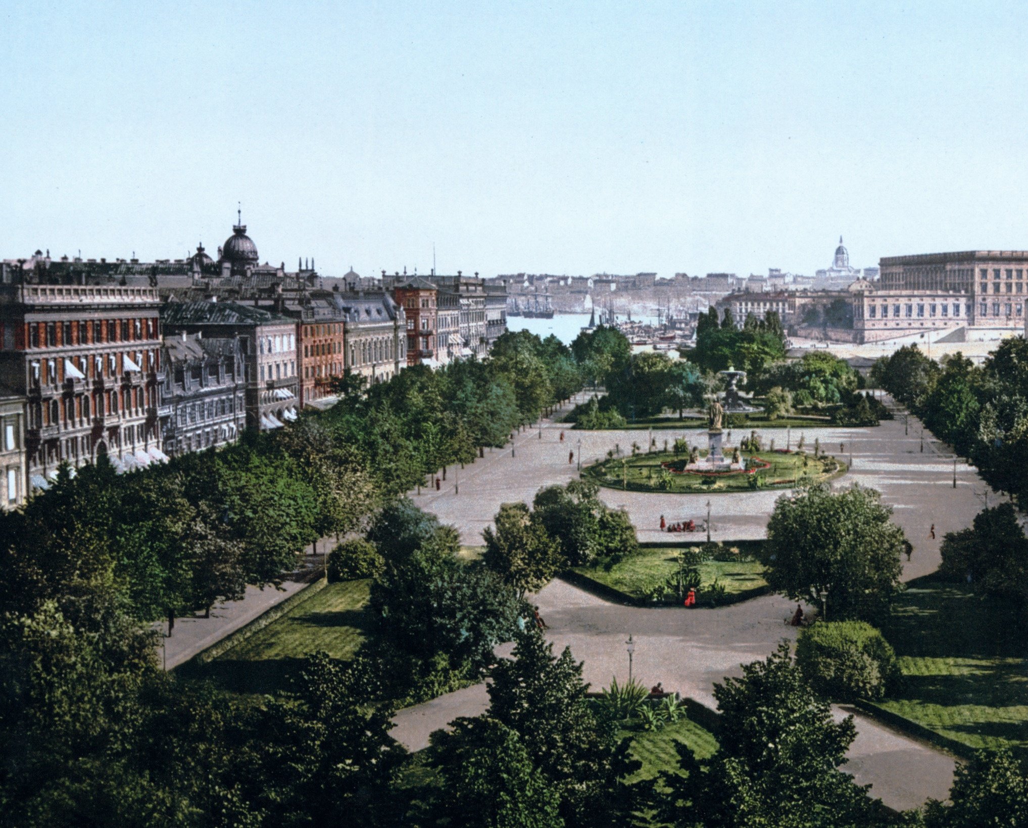 see source